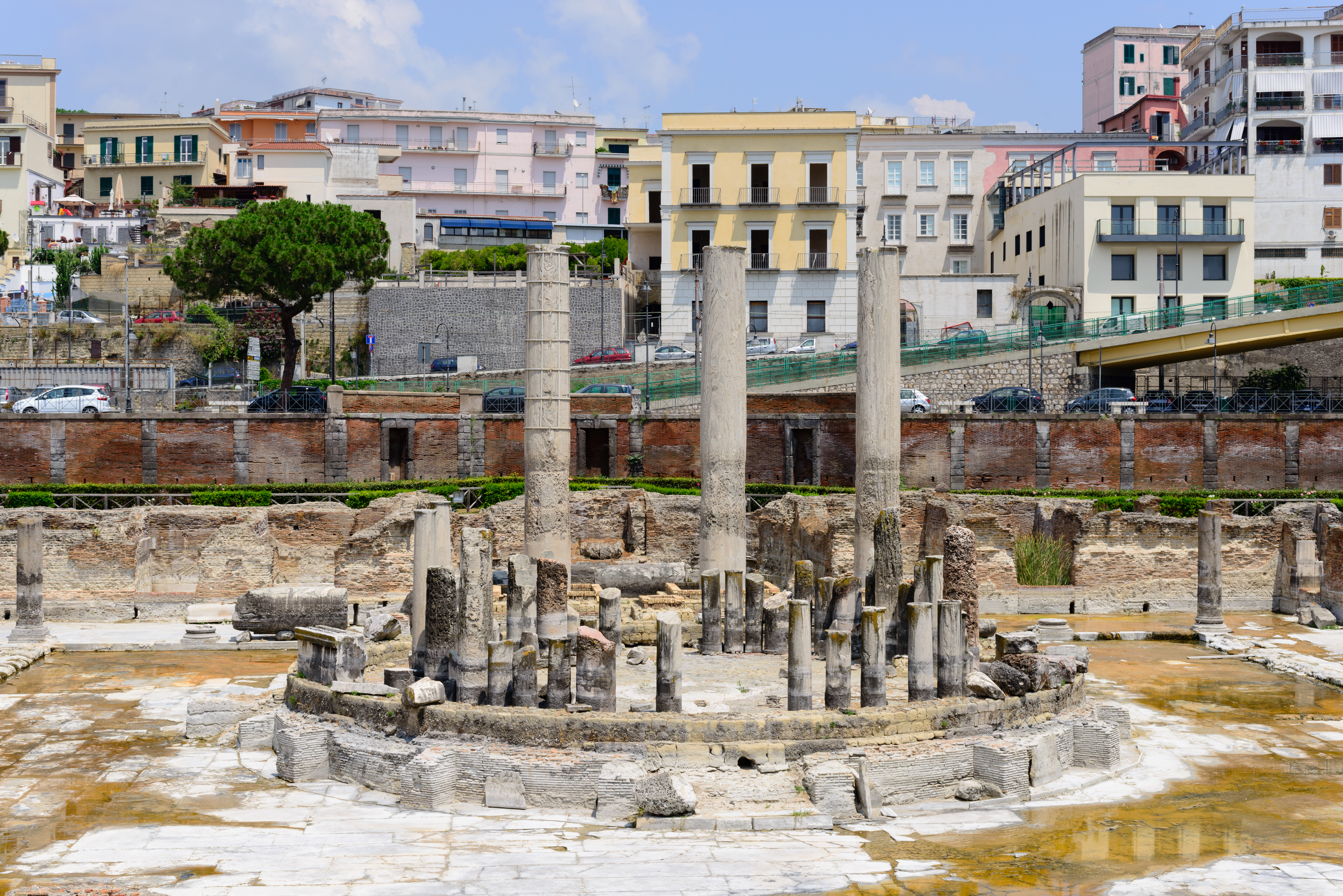 Ancient Roman market place (Macellum) and so-called Serapis temple, Pozzuoli, Campania, Italy.